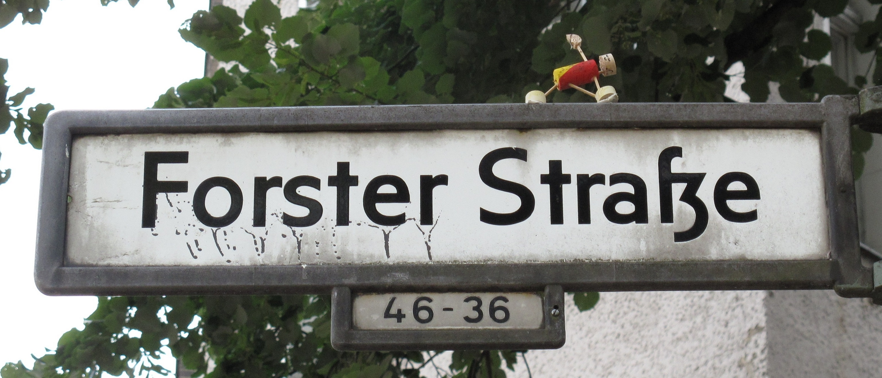 Street-Yogi in the Forster Straße/corner Reichenberger Straße in Berlin-Kreuzberg. Street-Yogis (also called: Kork-Männchen; german for: cork-males) are small figures on street signs in Berlin, Germany. They are created since 2007 by Josef Foos, based on the project Little People of the British street artist Slinkachu. In 2014 there are installed about 1000 Street-Yogis in Berlin.